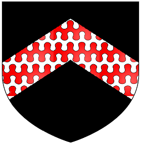 Arms of Hankford of Annery, Devon: Sable, a chevron barry nebuly argent and gules (Tristram Risdon's Notebook [1])